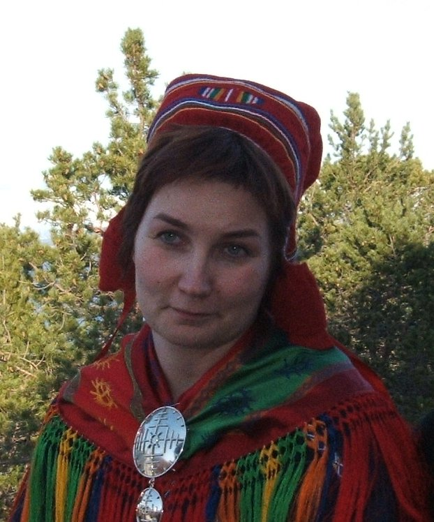 Aili Keskitalo, first female president of the Norwegian Sami Parliament (Samediggi) Author: Trond Trosterud